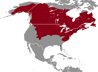 Microtus pennsylvanicus range map